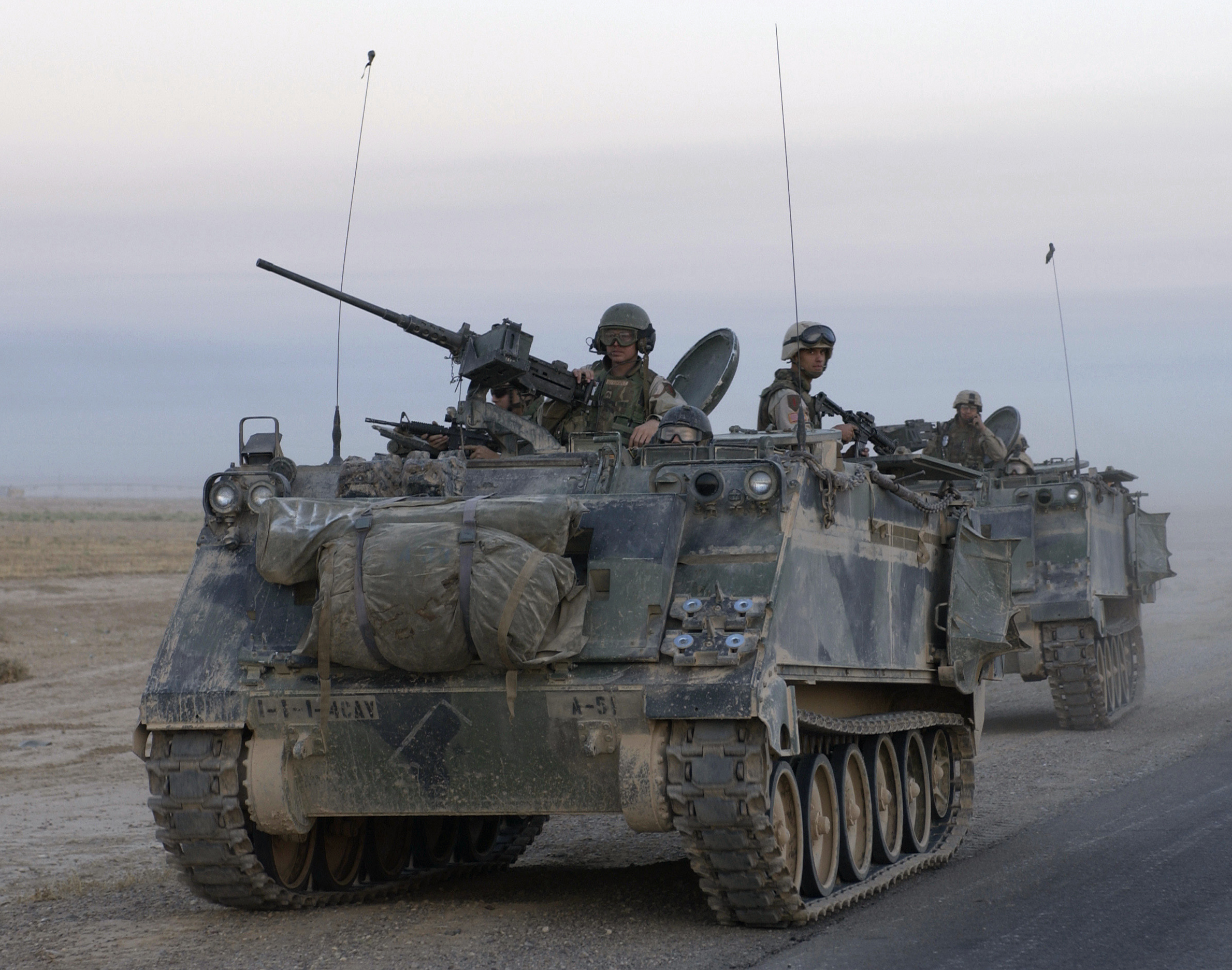 U.S. Army M106 mortar carriers leave Samarra after conducting an assault during Operation Baton Rouge in Samarra, Iraq, on Oct. 1, 2004. Soldiers of the 1st Battalion, 4th Cavalry Regiment, 1st Infantry Division conducted the assault and then surrounded Samarra sealing it off to keep anti-coalition forces from entering or leaving the town.